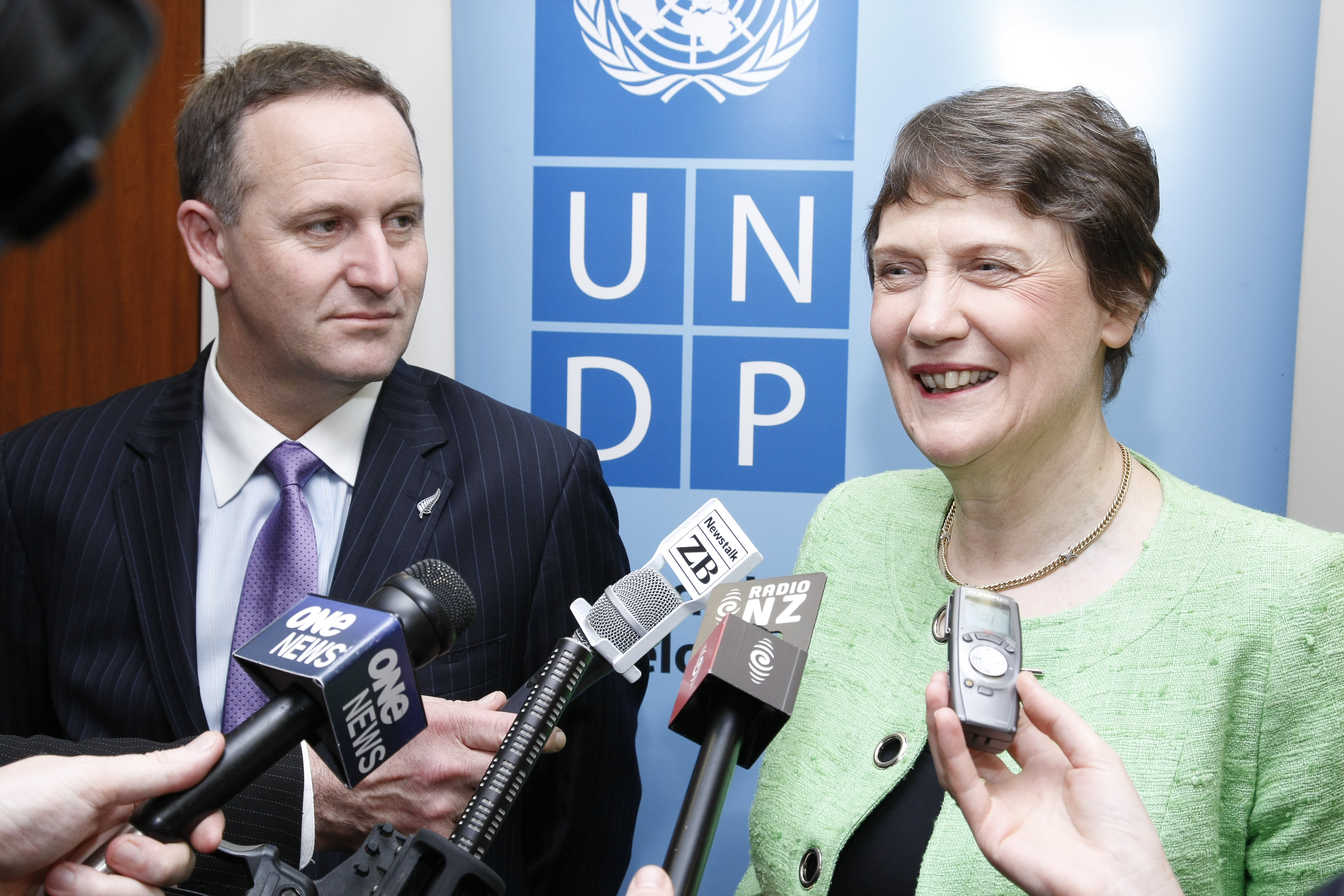 UNDP Ms. Helen Clark meeting with New Zealand Prime Minister John Key